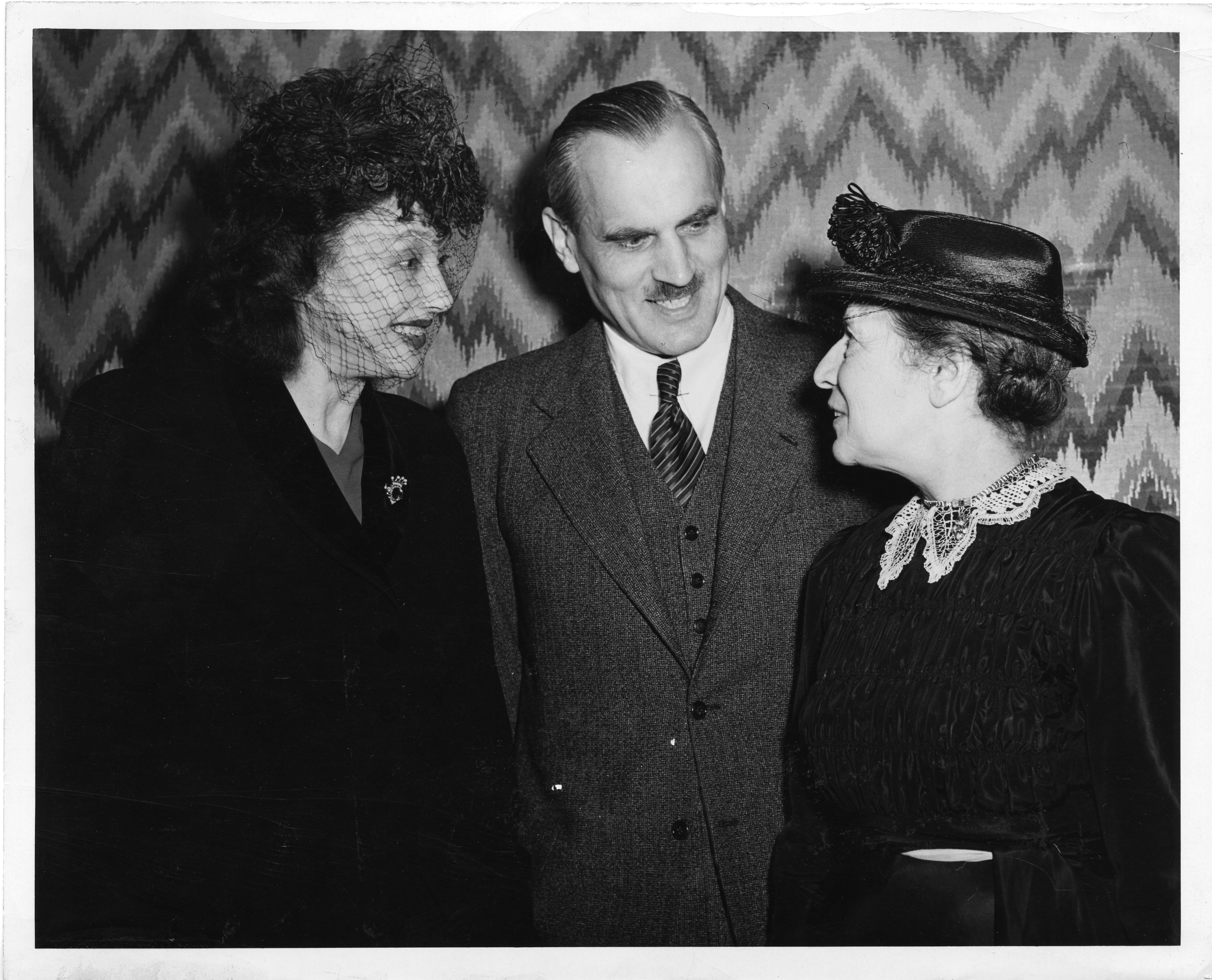 Description: Austrian-born physicist Lise Meitner (1878-1968) is shown here (at right) with actress Katherine Cornell and physicist Arthur H. Compton on June 6, 1946, when Meitner and Cornell were receiving awards from the National Conference of Christians and Jews. Meitner collaborated with Otto Hahn on the discovery of nuclear fission but was overlooked by the Royal Swedish Academy when they gave Hahn the Nobel Prize in chemistry in 1945. Her contribution was formally acknowledged when she received the Fermi Prize in 1966. Creator/Photographer: Arnold Sadow Medium: Black and white photographic print Date: 1946 Persistent URL: Repository: Smithsonian Institution Archives Collection: Accession 90-105: Science Service Records, 1920s – 1970s - Science Service, now the Society for Science & the Public, was a news organization founded in 1921 to promote the dissemination of scientific and technical information. Although initially intended as a news service, Science Service produced an extensive array of news features, radio programs, motion pictures, phonograph records, and demonstration kits and it also engaged in various educational, translation, and research activities. Accession number: SIA2008-1175